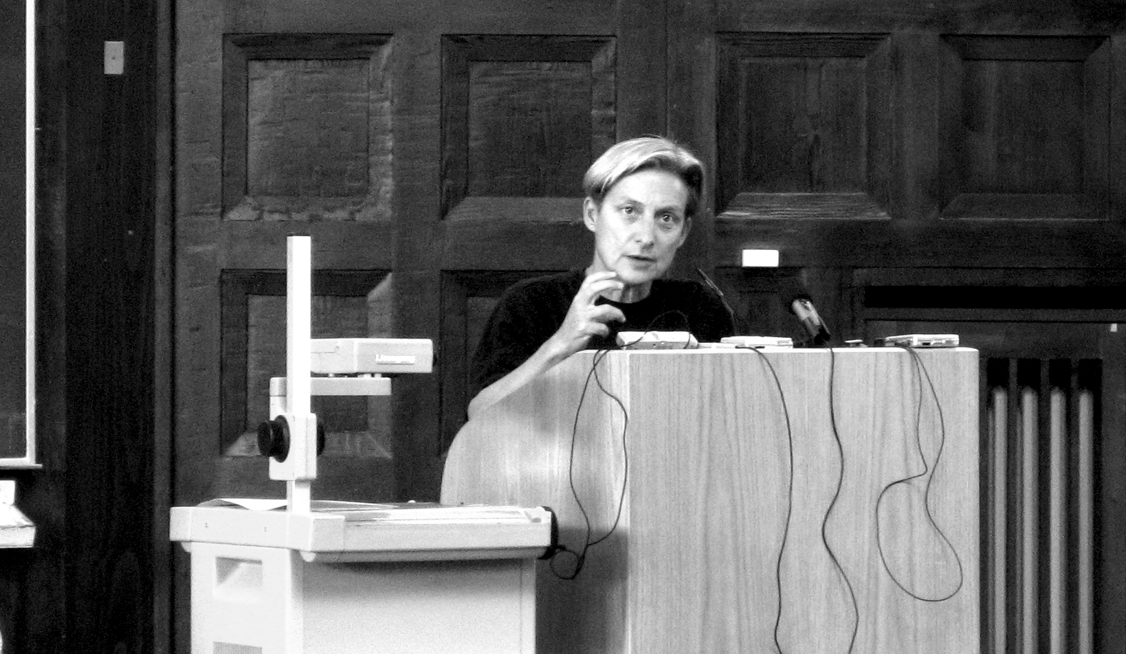 Judith Butler at a lecture at the University of Hamburg, April 2007.